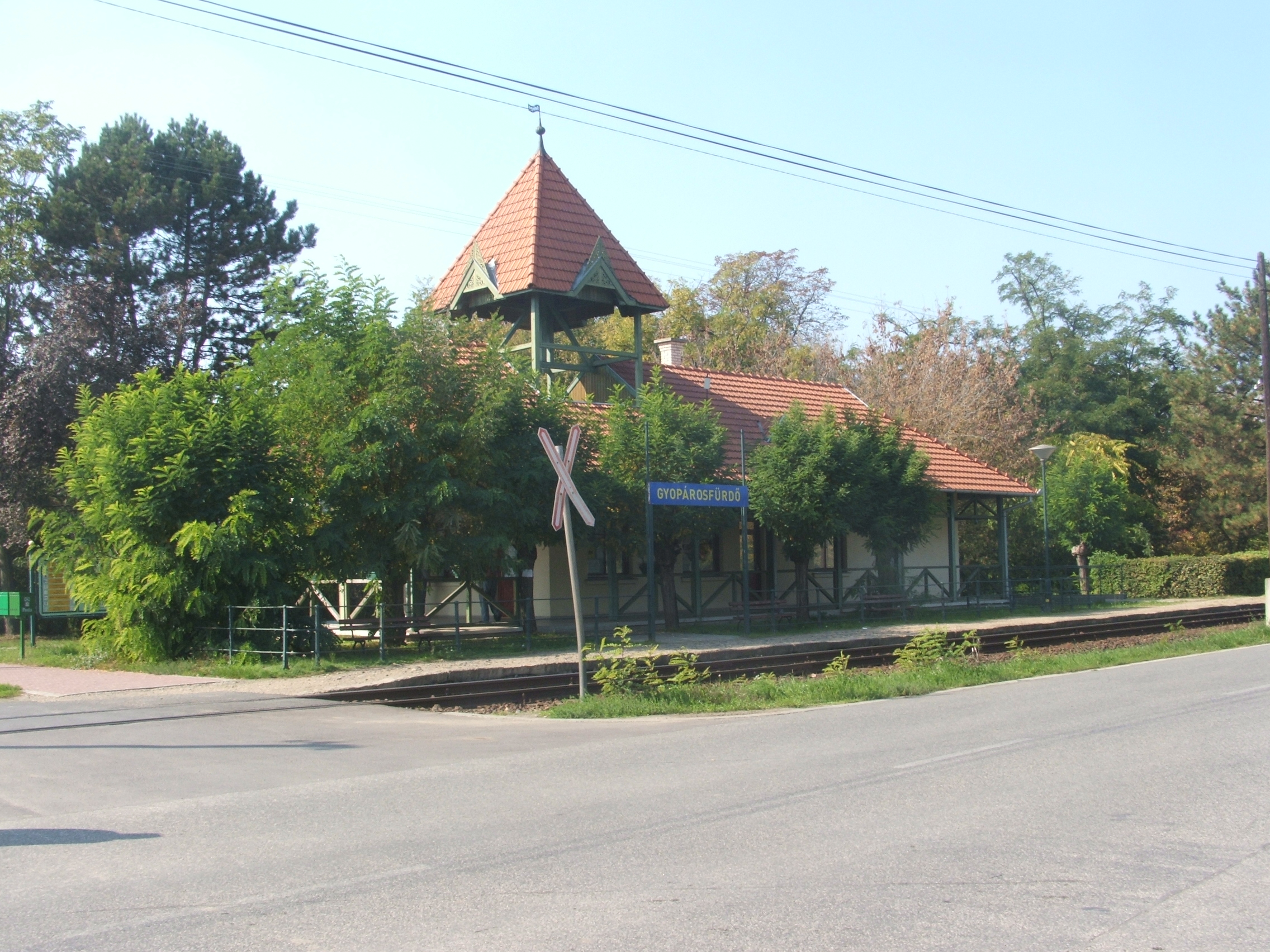 Train stop Gyopárosfürdő